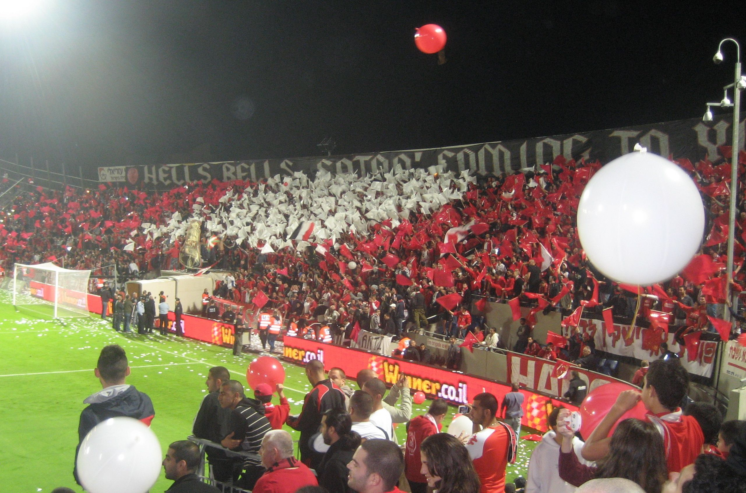 Hapoel Tel Aviv fans, before the Tel Aviv derbi, November 2012